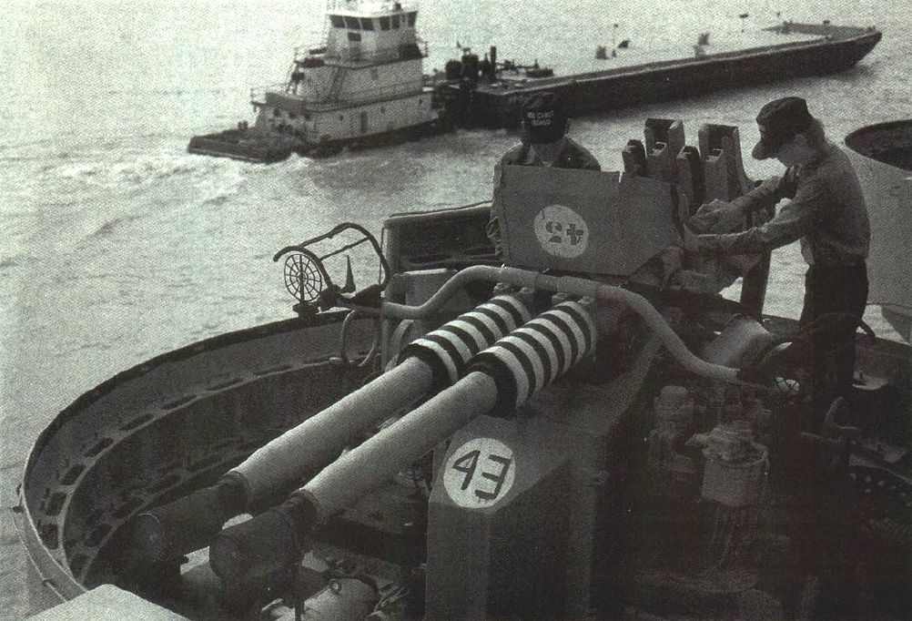 Two sea cadets clean a 40 mm Mk 1 twin mount aboard the former U.S. Navy light aircraft carrier USS Cabot (CVL-28) at New Orleans, Louisiana (USA), in 1990.